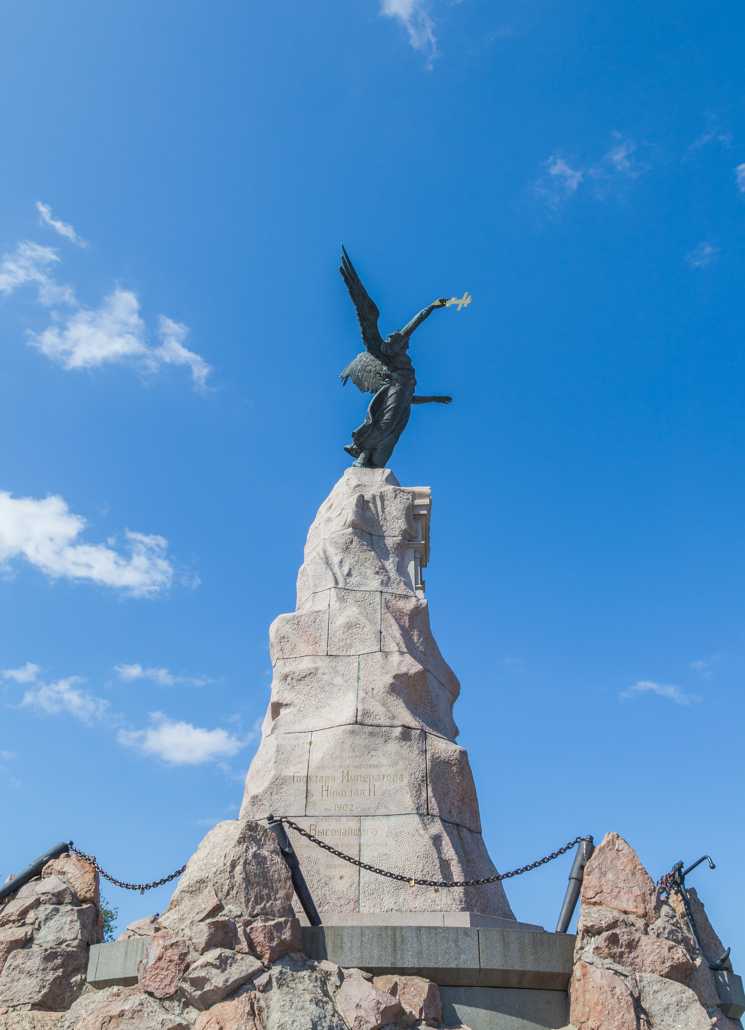 Rusalka Memorial, Tallinn, Estonia